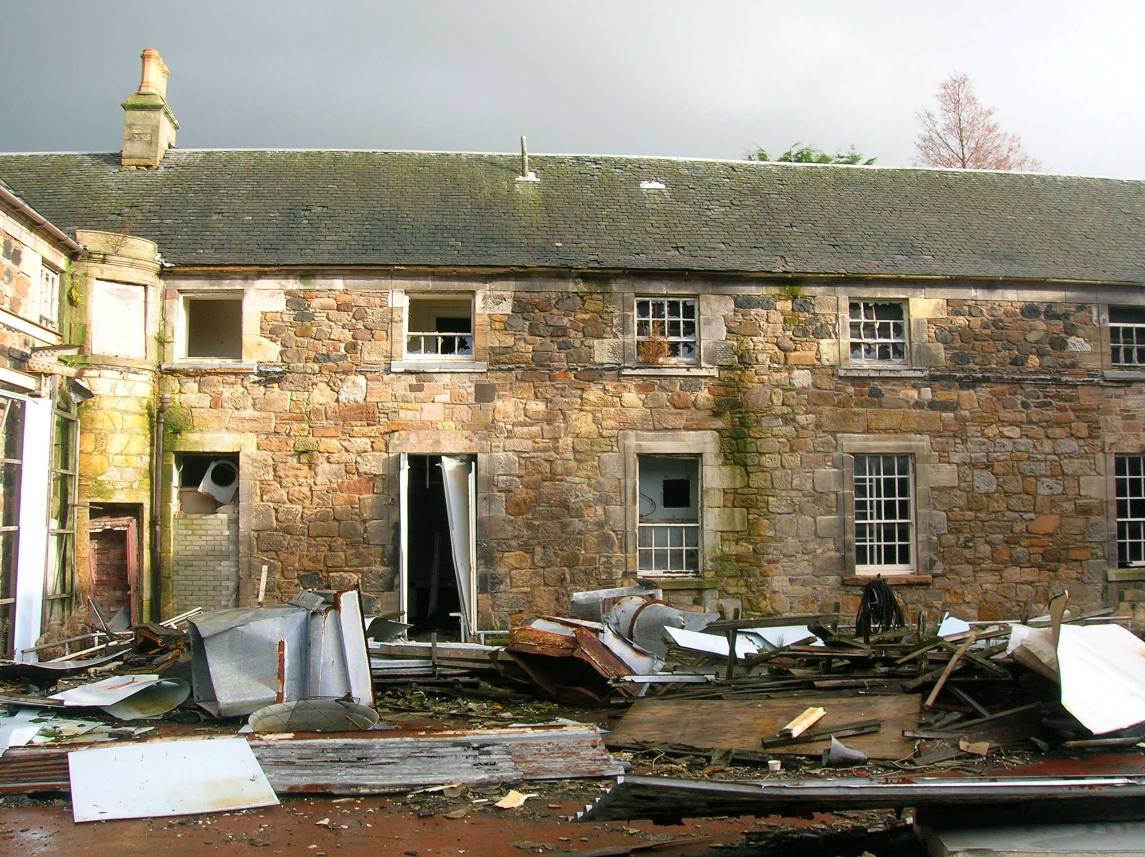 A view of the inner courtyard of the old stables at Eglinton, Kilwinning, North Ayrshire, Scotland.